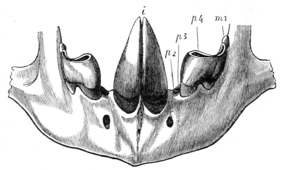 A woodcut depicting the dentition of an extinct species of mammal. Caption (removed) stated "Front view of lower incisive laniaries, 1/2 nat. size. Thylacoleo carnifex